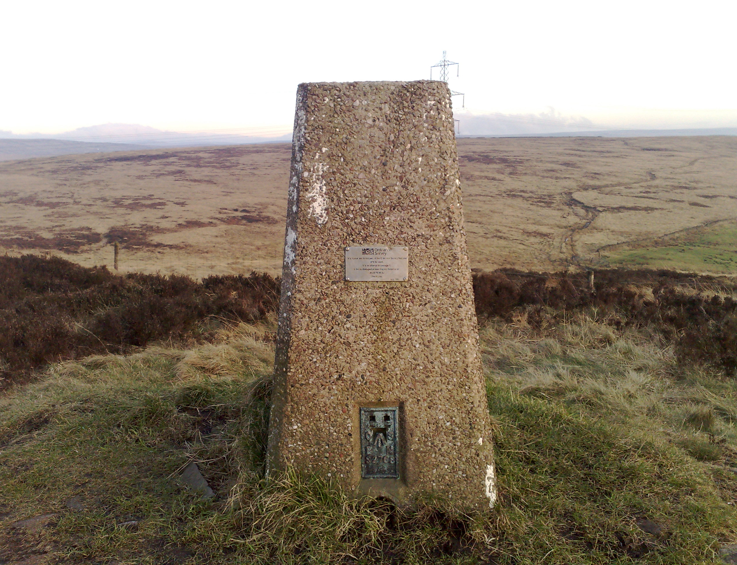 The Trig Point at the summit of Crompton Moor, in Shaw and Crompton, Greater Manchester, England.